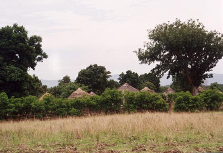 village with natural fencing in Dabola Prefecture, Guinea ("Niamalaforest Dabola naturalfencing")